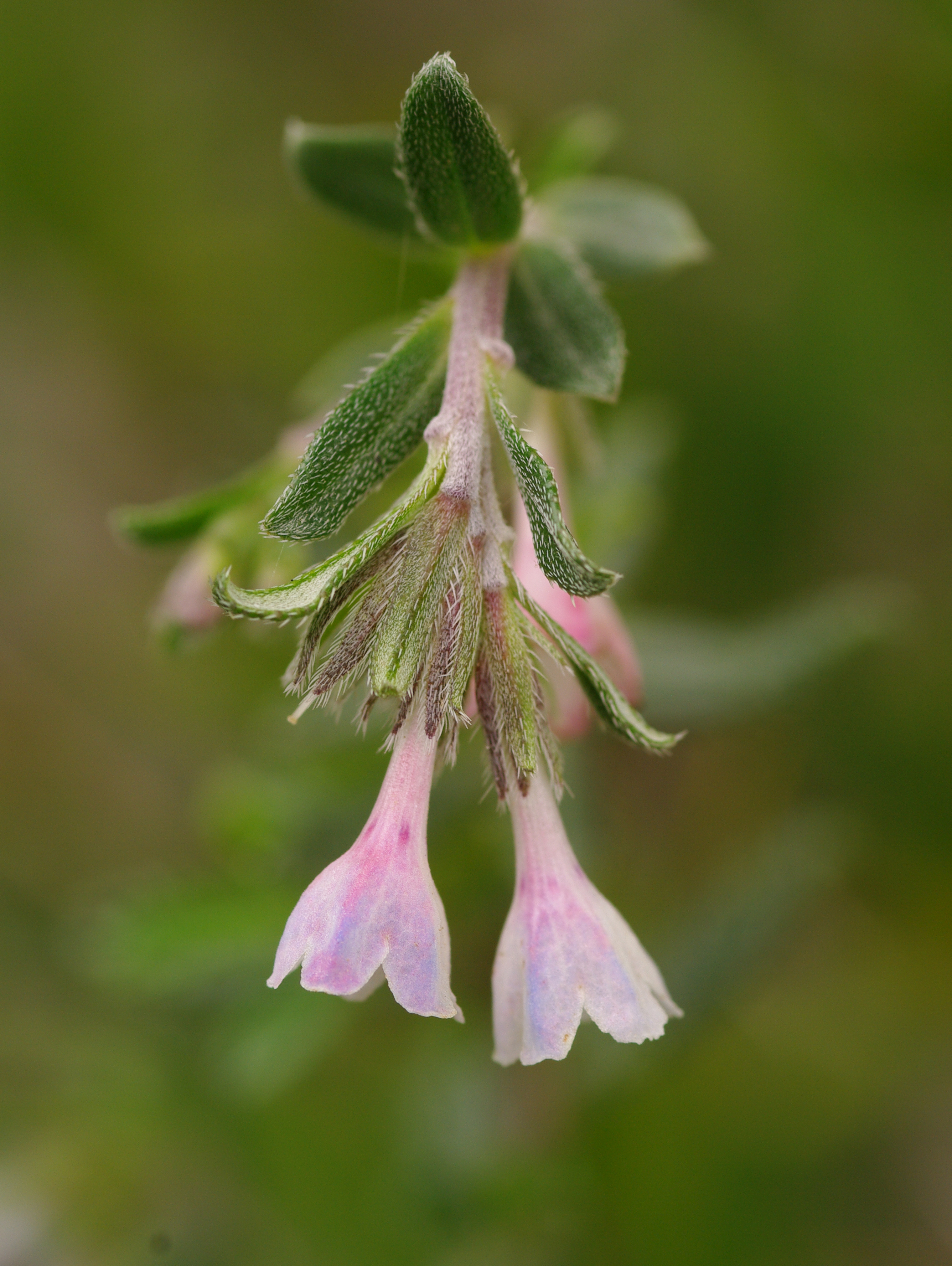 Lithodora hispidula. Sarıçam - Adana, Turkey.